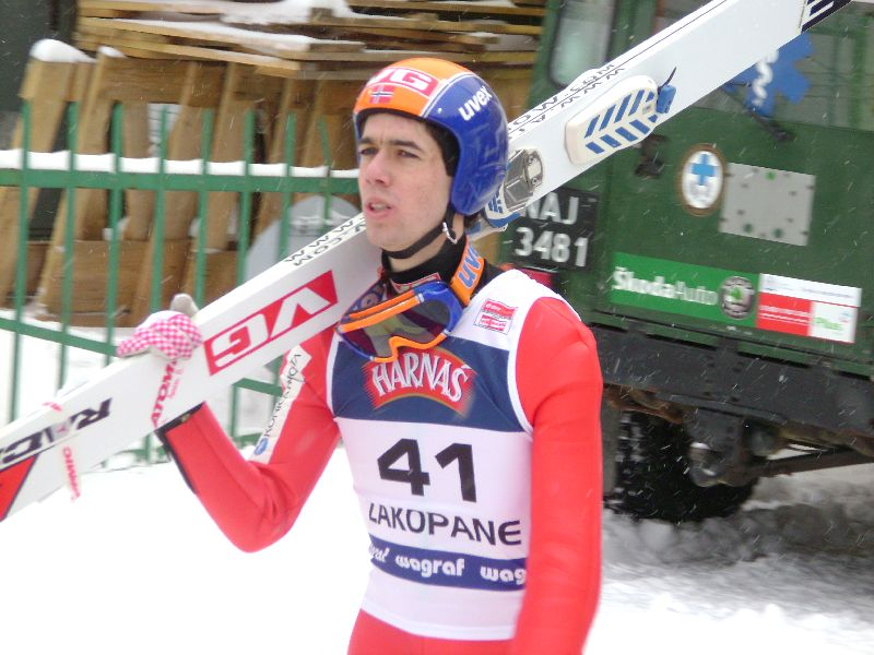 ski jumper Anders Bardal from Norway during the World Cup in Zakopane on 27-1-2008